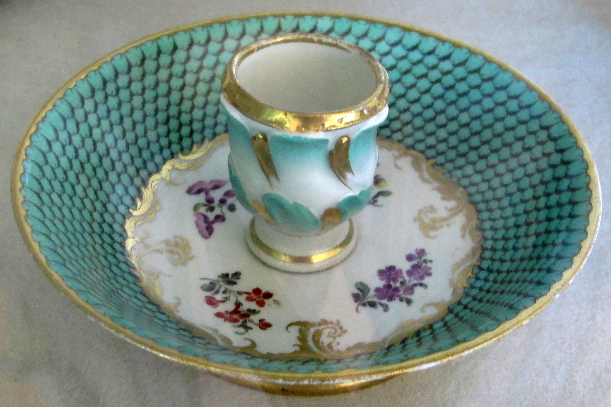 Porcelain Museum (Florence) - Vienna porcelain